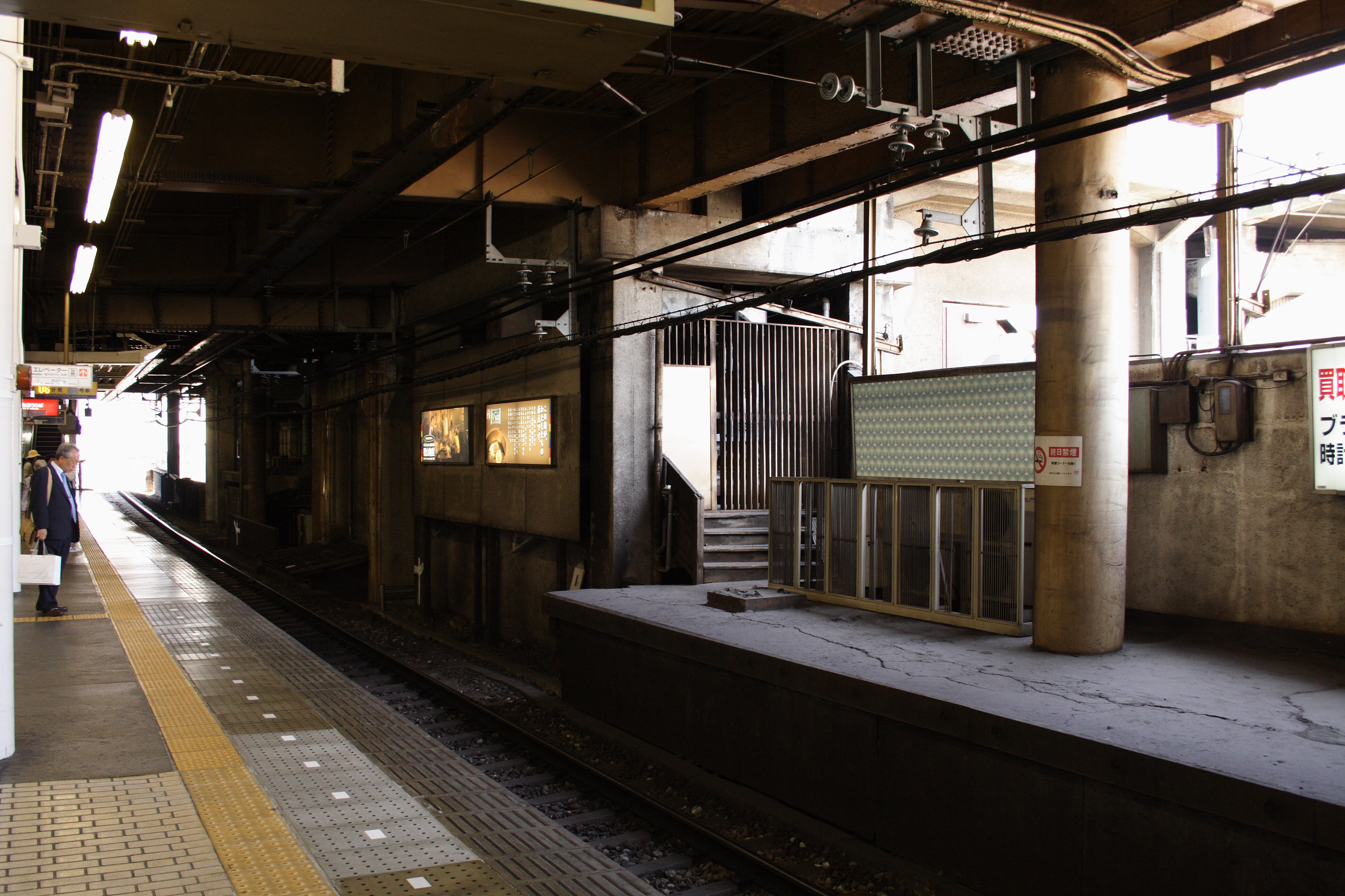 近畿日本鉄道・鶴橋駅の廃ホームと階段/Tsuruhashi Station of Kintetsu Corporation